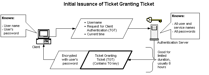 play